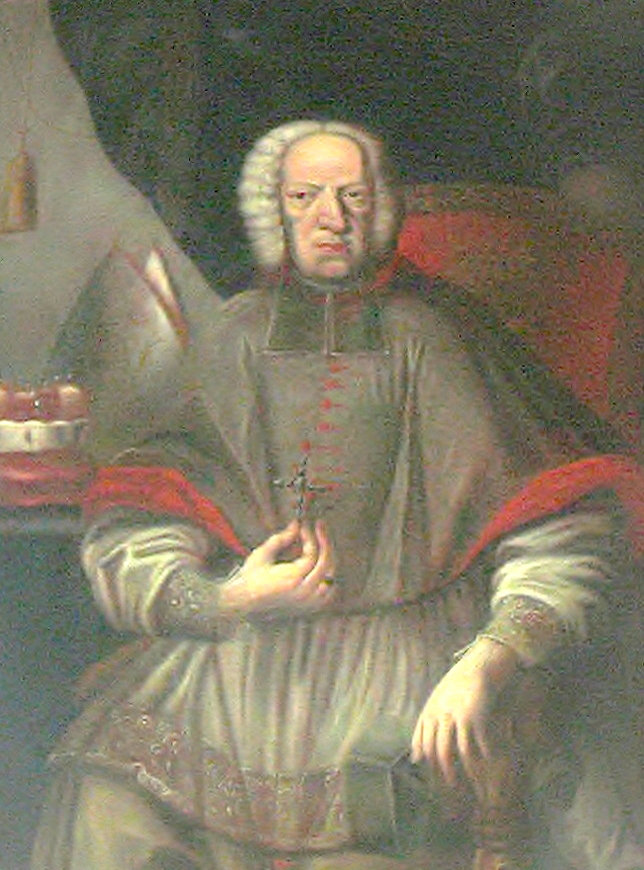 Portrait of bishop of Olomouc Jakub Arnošt z Lichtenštejna